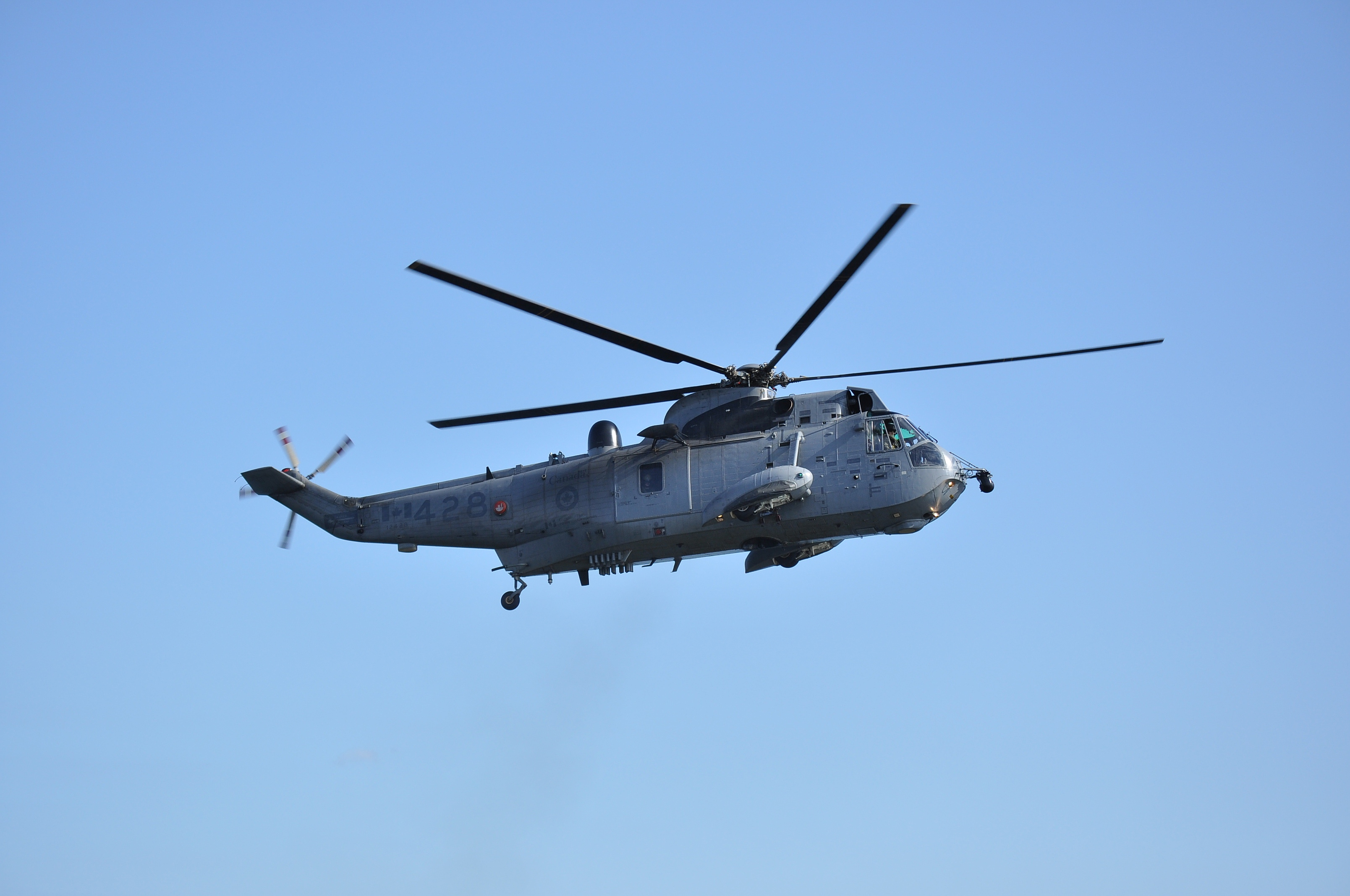 A Sikorsky CH-124 Sea King near the White Rock pier.